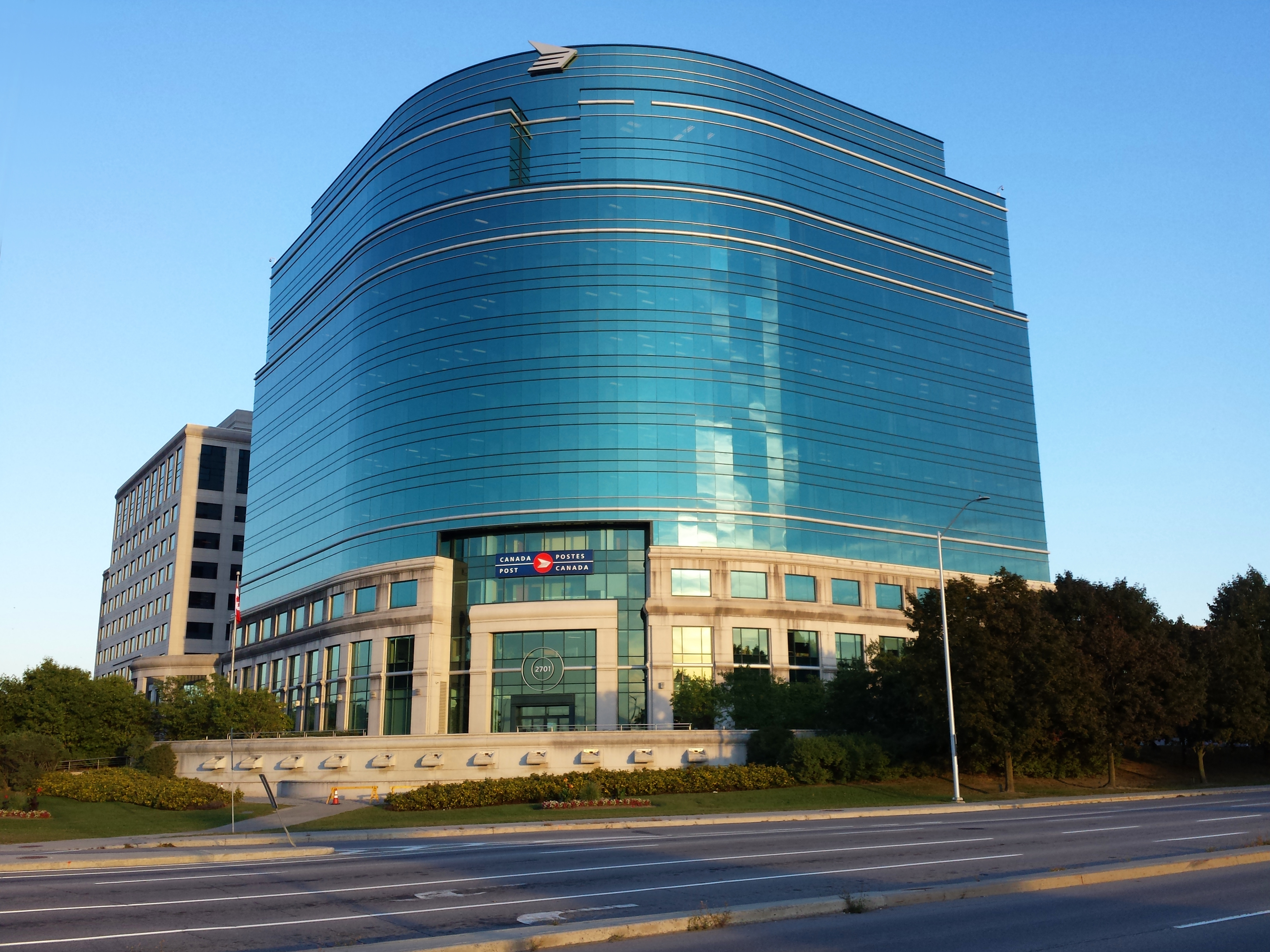 Canada Post headoffice, Ottawa, Ontario, Canada